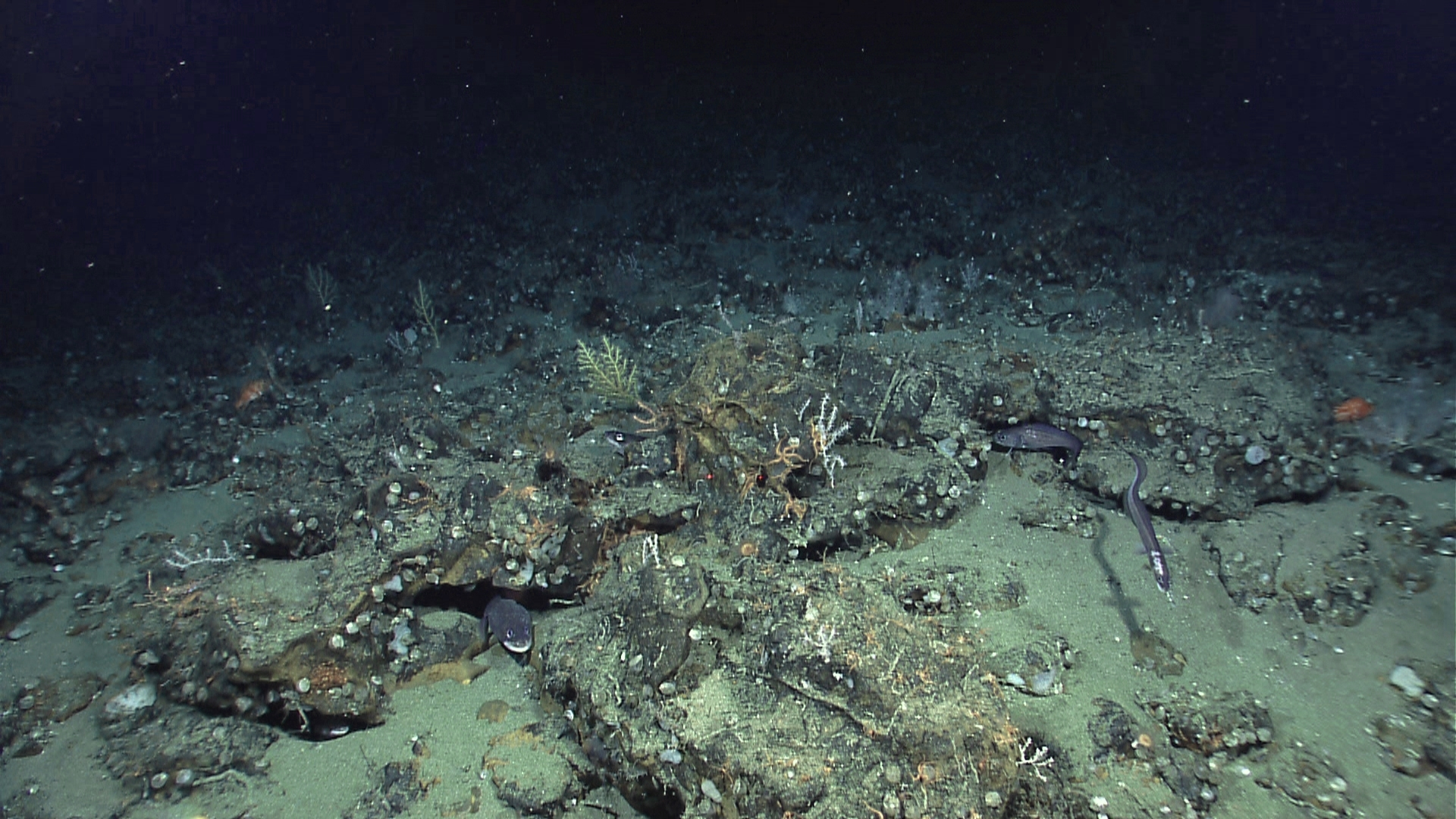 Eels, brachiopods, small corals, and a few orange scorpion fish are seen in this image. Image ID: expl6373, Voyage To Inner Space - Exploring the Seas With NOAA Collect Location: Pacific Ocean, Paramount Seamount Photo Date: 2011 July 14 Credit: NOAA Okeanos Explorer Program, Galapagos Rift Expedition 2011